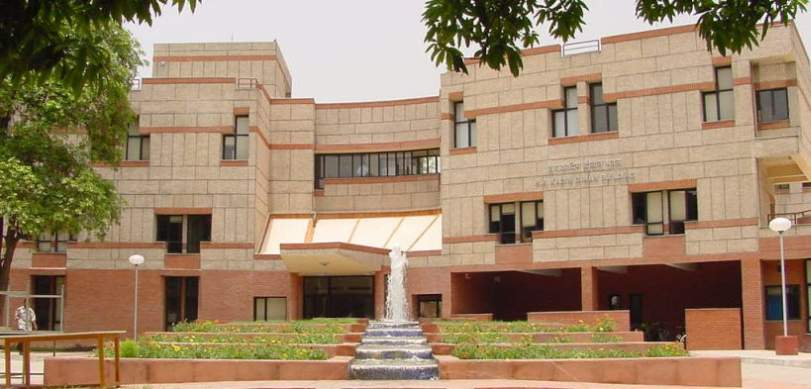 The photo is of one of the buildings of CSE department of IIT Kanpur